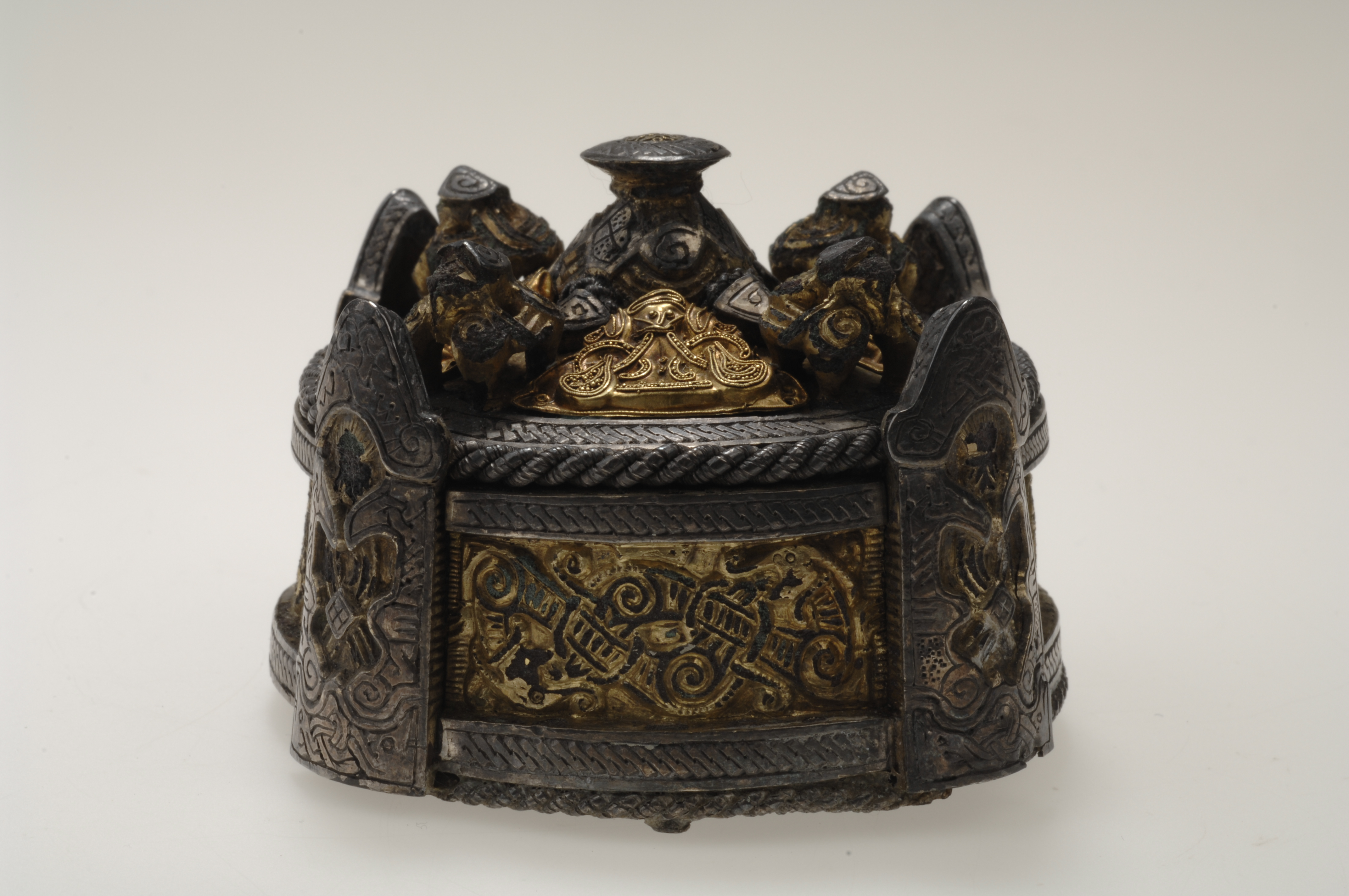 Box brooch. Bronze, gold and silver. The box brooch has intricate ornamentation in gold and silver. Hoard find, Krasse, Guldrupe, Gotland, Sweden. SHM 6387 See also